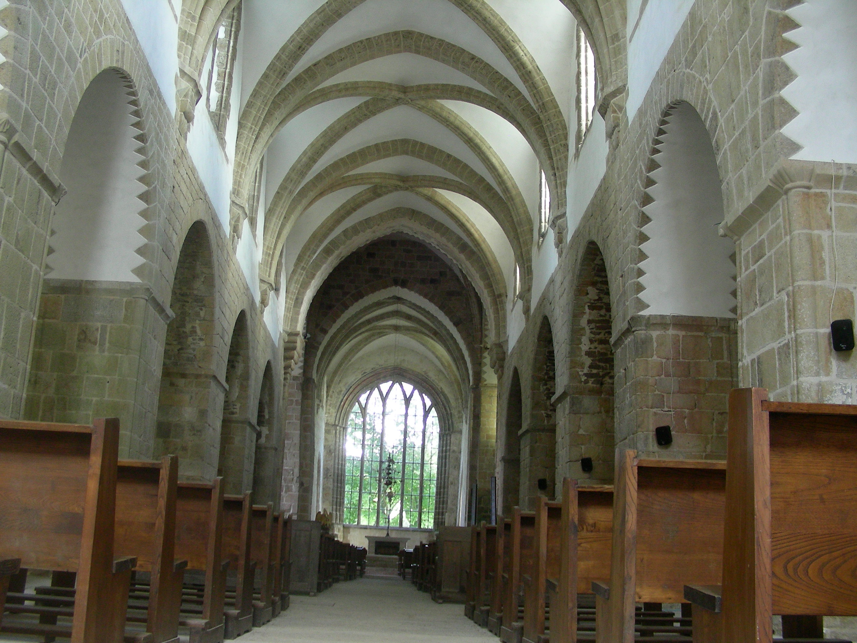 Abbey of Saínte Trinité de La Lucerne, the Church, interior